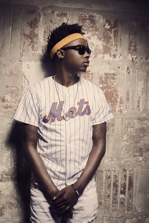 Trap Beckham Def Jam Recordings Mets